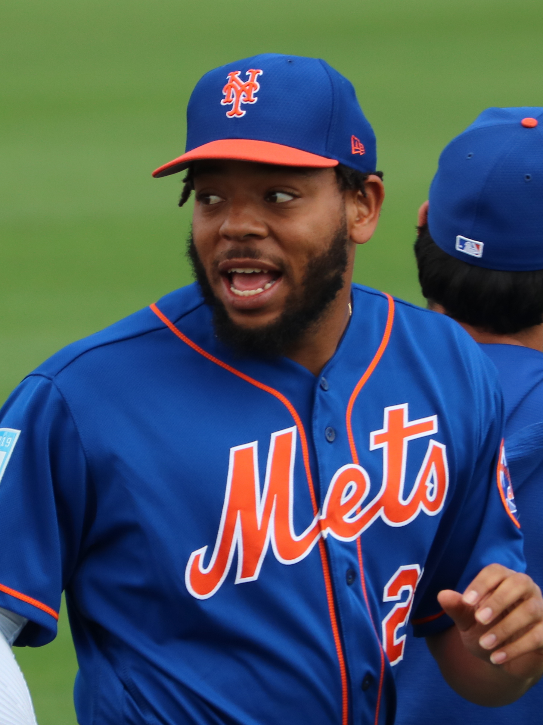 Dom Smith during warmups, March 3, 2019